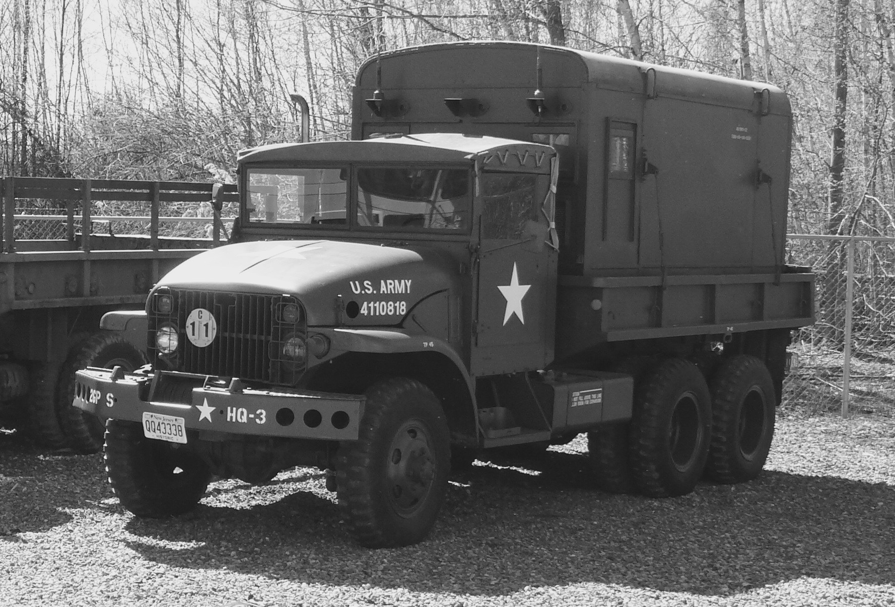 US Army M135 truck from the Aviation Hall of Fame and Museum of New Jersey.